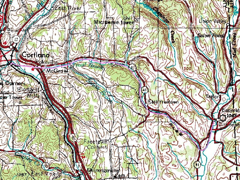 Map of the Wikipedia:Erie and Central New York Railroad